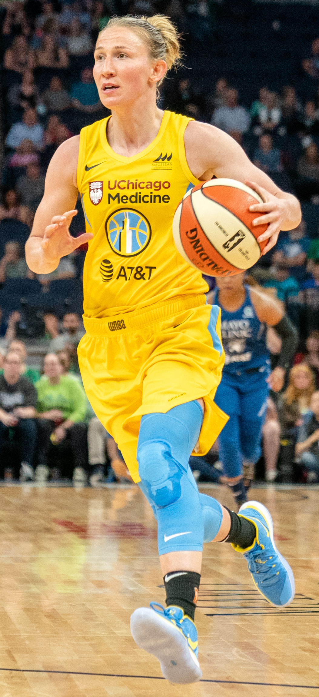 Chicago Sky player Courtney Vandersloot in a game against the Minnesota Lynx